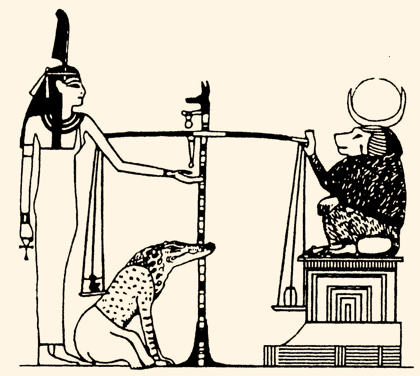 Ma_Tho_Am.jpg